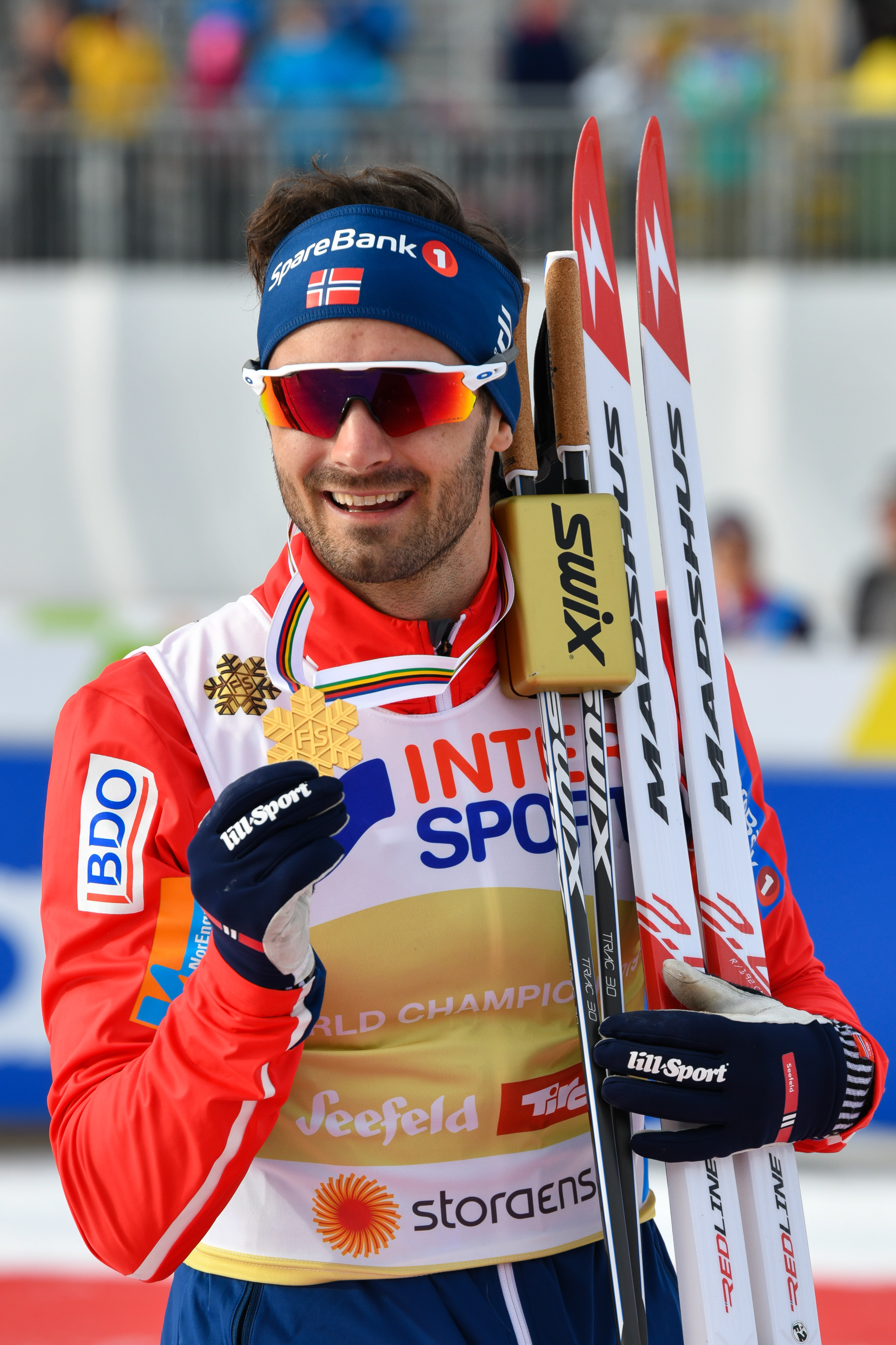 FIS Nordic Wolrd Ski Championships Seefeld 2019 - Men Cross Country 50km Mass Start Free. Picture shows Hans Christer Holund (NOR).